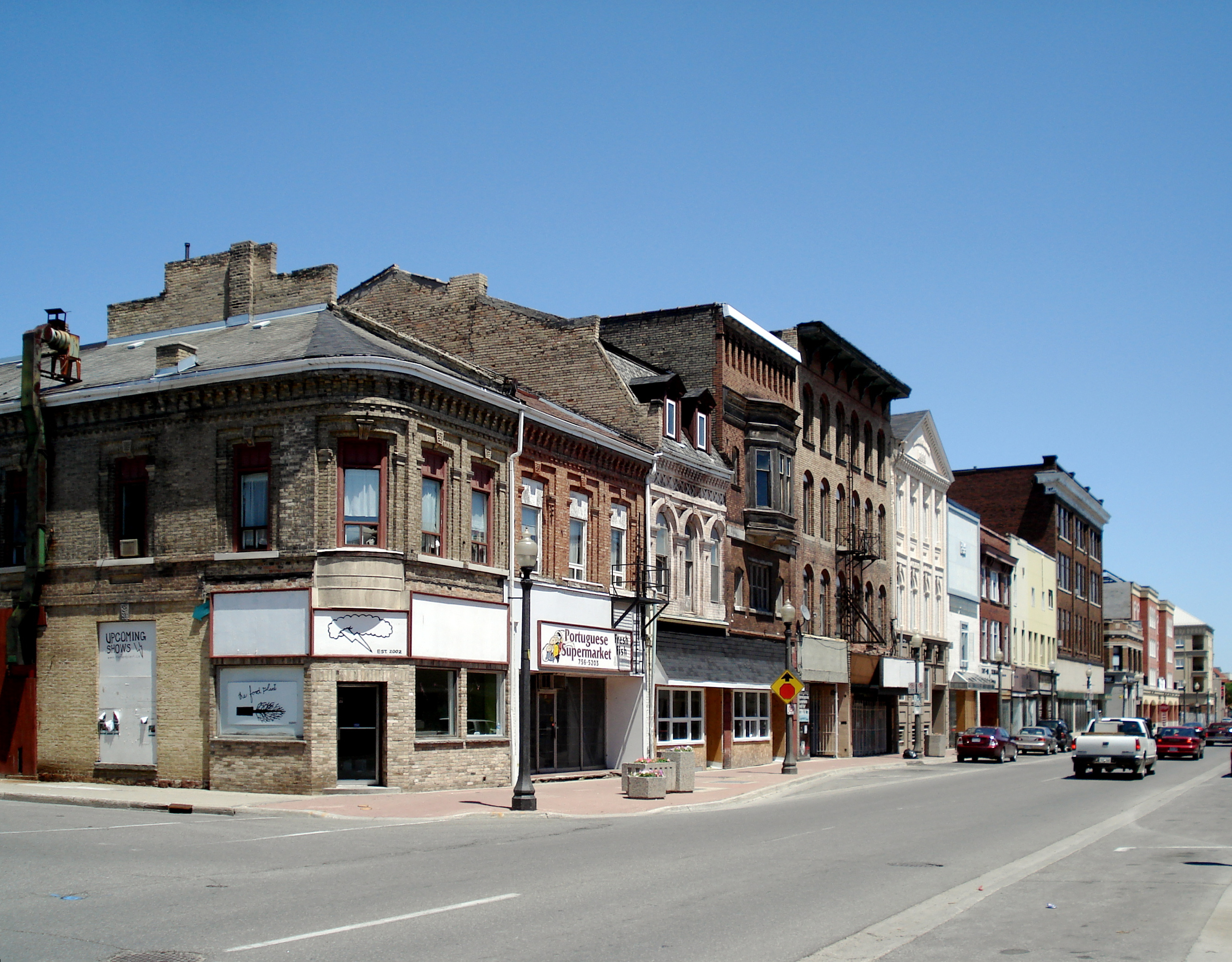 Colborne Street in Brantford, Ontario